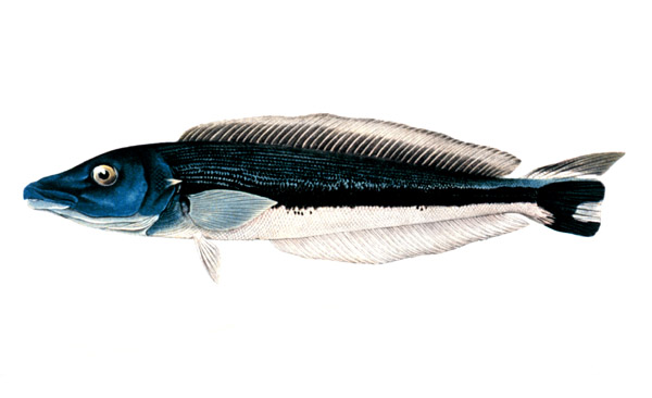 Blue Blanquillo (Malacanthus latovittatus), a species of tilefish. Touched up plate from NOAA's Photo Library: Image ID: fish3103, Fisheries Collection Blue blanquillo.jpg